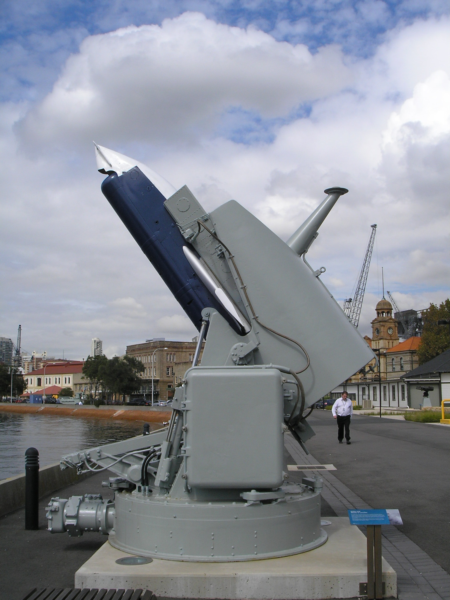 An Ikara anti-submarine missile launcher on display at the Royal Australian Navy Heritage Centre